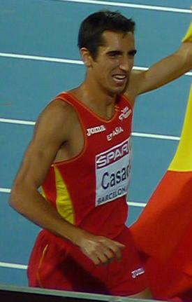 Spanish athlete, Arturo Casado.